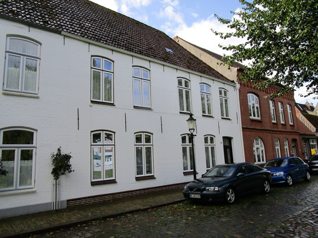 Mittelburggraben 3, vermutlich kurzzeitig Versammlungshaus der Friedrichstädter Unitarier